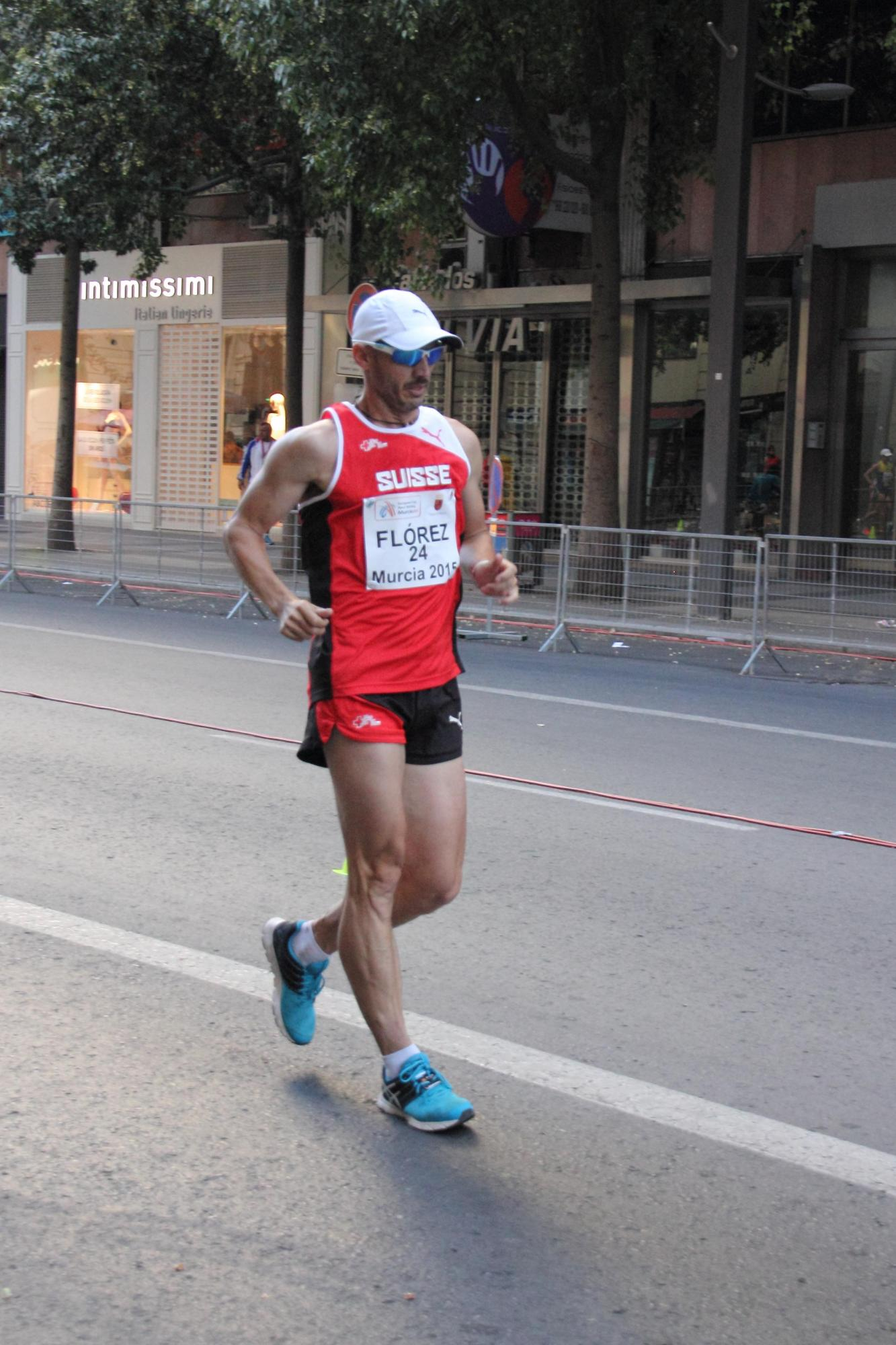 24-Alex Flórez (SUI) in the European Cup Race Walking 2015 (Murcia, Spain).